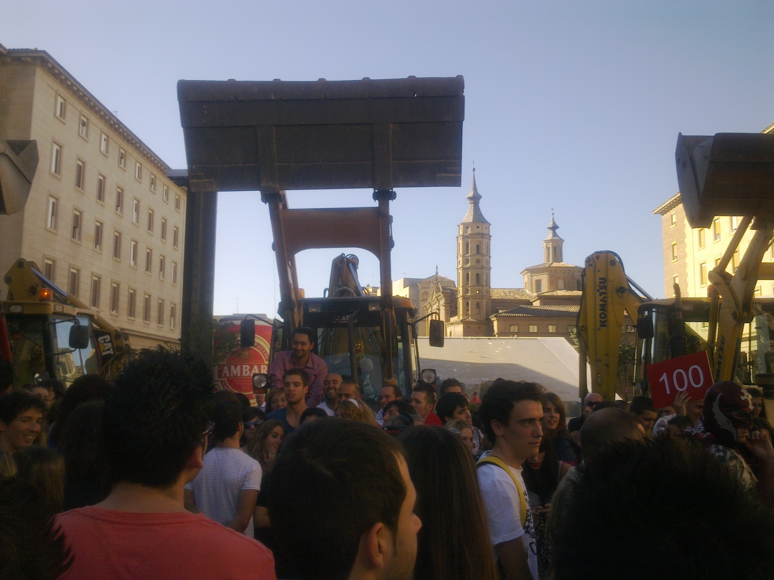 Basillica of Our Lady of the Pillar in wich we can see a bulldozer for a show of the Spanish program No le digas a mamá que trabajo en la tele